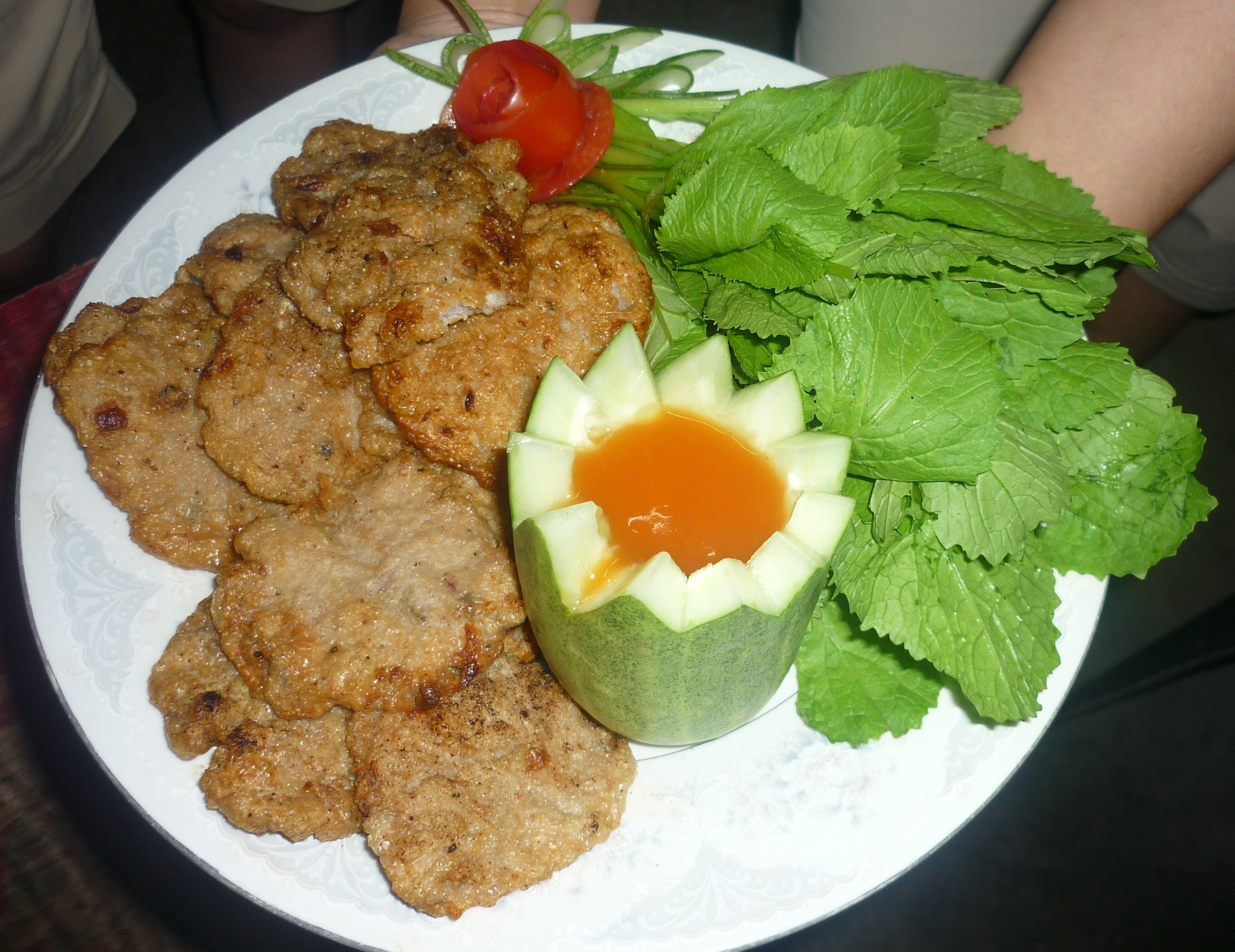 chả cá